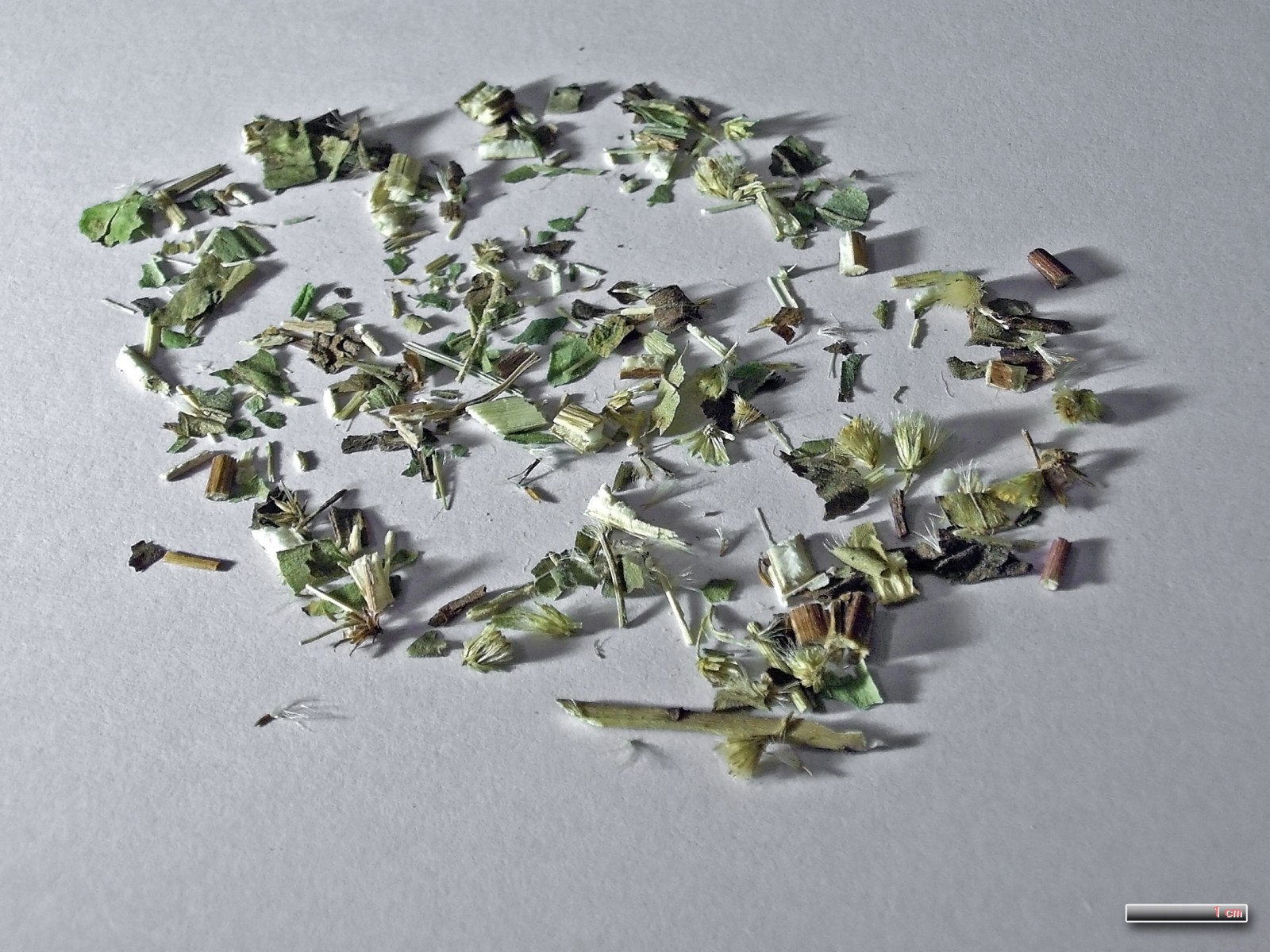 dried Solidago canadensis (goldenrod or woundwort); Herb